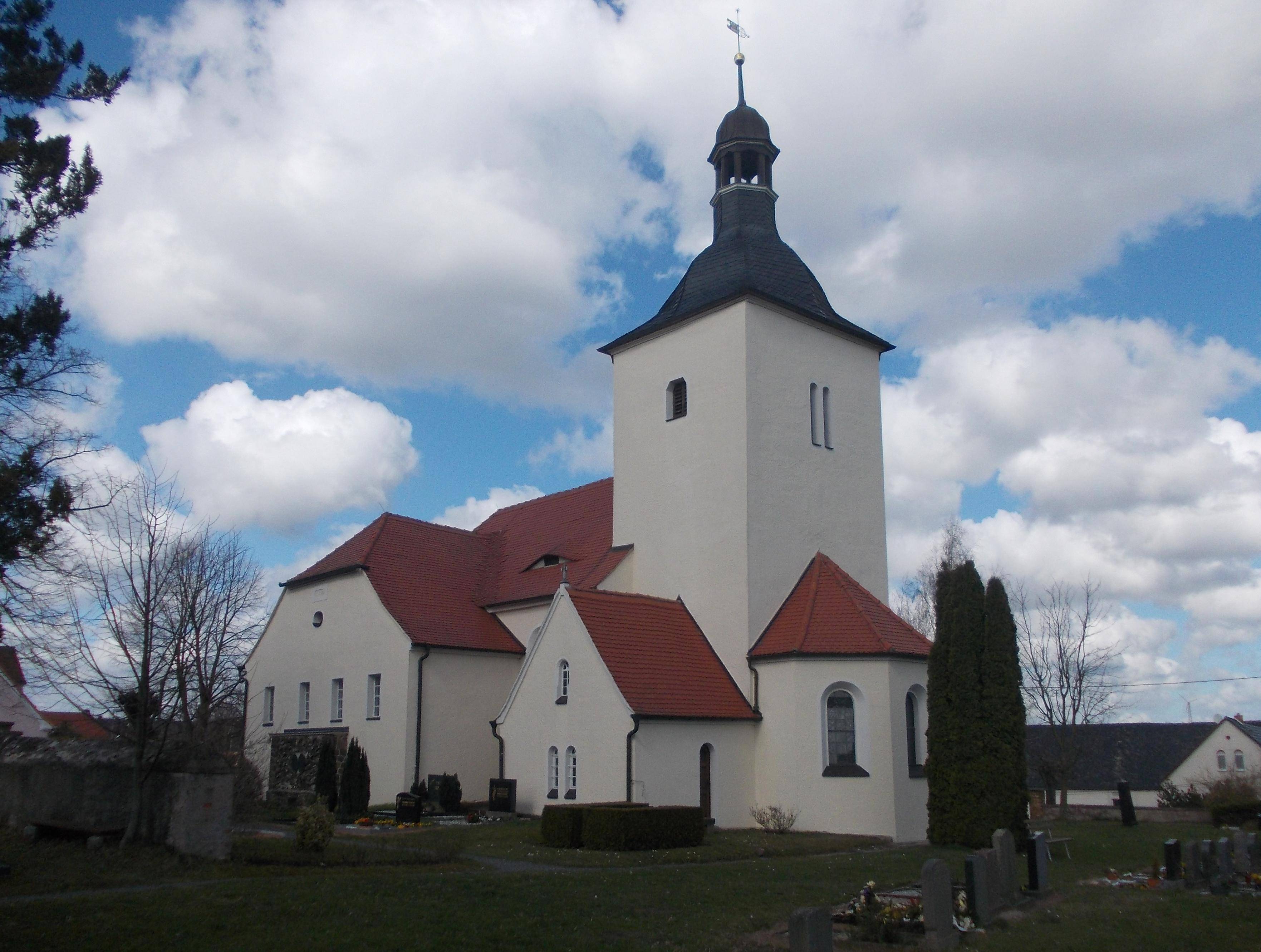 Seelingstädt church (Trebsen, Leipzig district, Saxony)